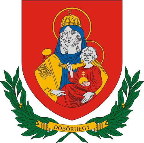 Coat of arms of Döbörhegy, Hungary